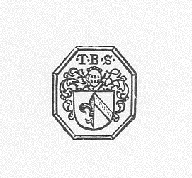 Signet imprint of the Benkestok ring.